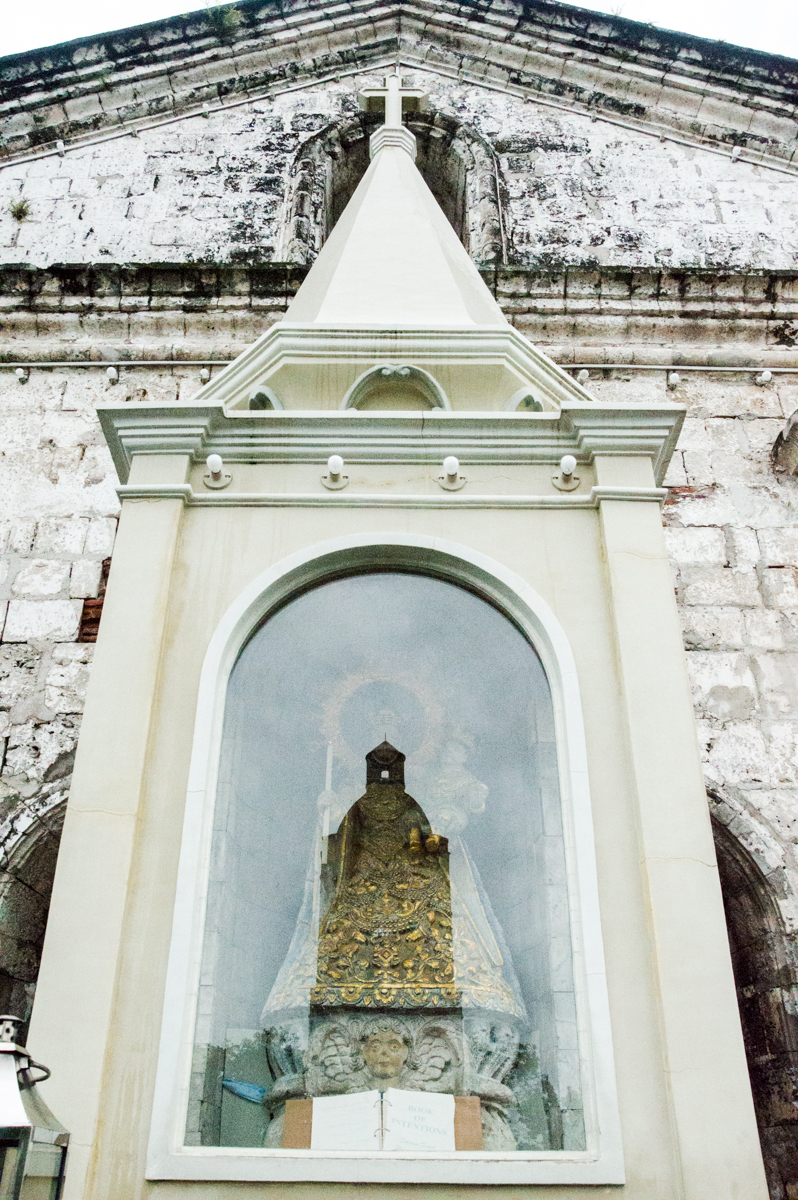 Shrine located on the cathedral balcony